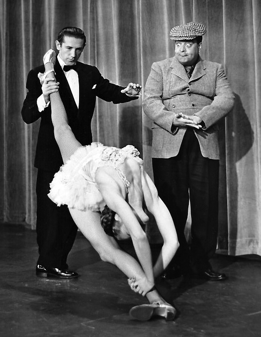 Photo of Jackie Gleason as his "Poor Soul" character with the dance team of Darvas and Julia on the television program Toast of the Town in 1954. The program was re-named as The Ed Sullivan Show a year later.